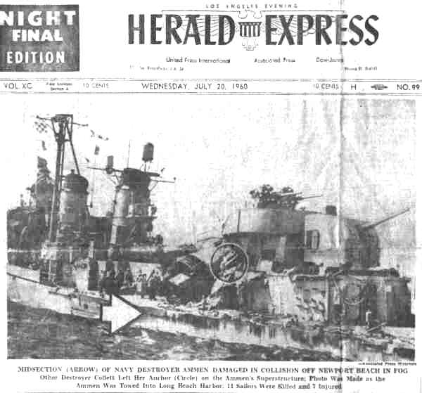 The U.S. Navy destroyer USS Ammen (DD-527) after her collision with USS Collet (DD-730). On 19 July 1960, while making the transit between Seal Beach and San Diego for decommissioning, Ammen was struck by Collett. The collision killed 11 Ammen sailors and injured 20 others. She was initially towed into Long Beach and, later, from there to San Diego where she was decommissioned on 15 September 1960. Ammen´s name was struck from the Navy List on 1 October 1960, and she was sold to the National Metal and Steel Corporation on 20 April 1961 for scrapping.